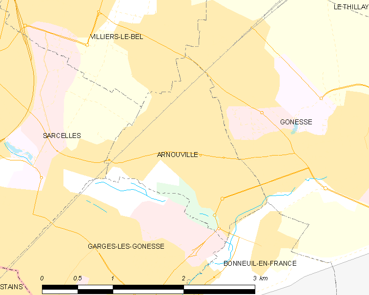 Map of French municipality Arnouville-lès-Gonesse